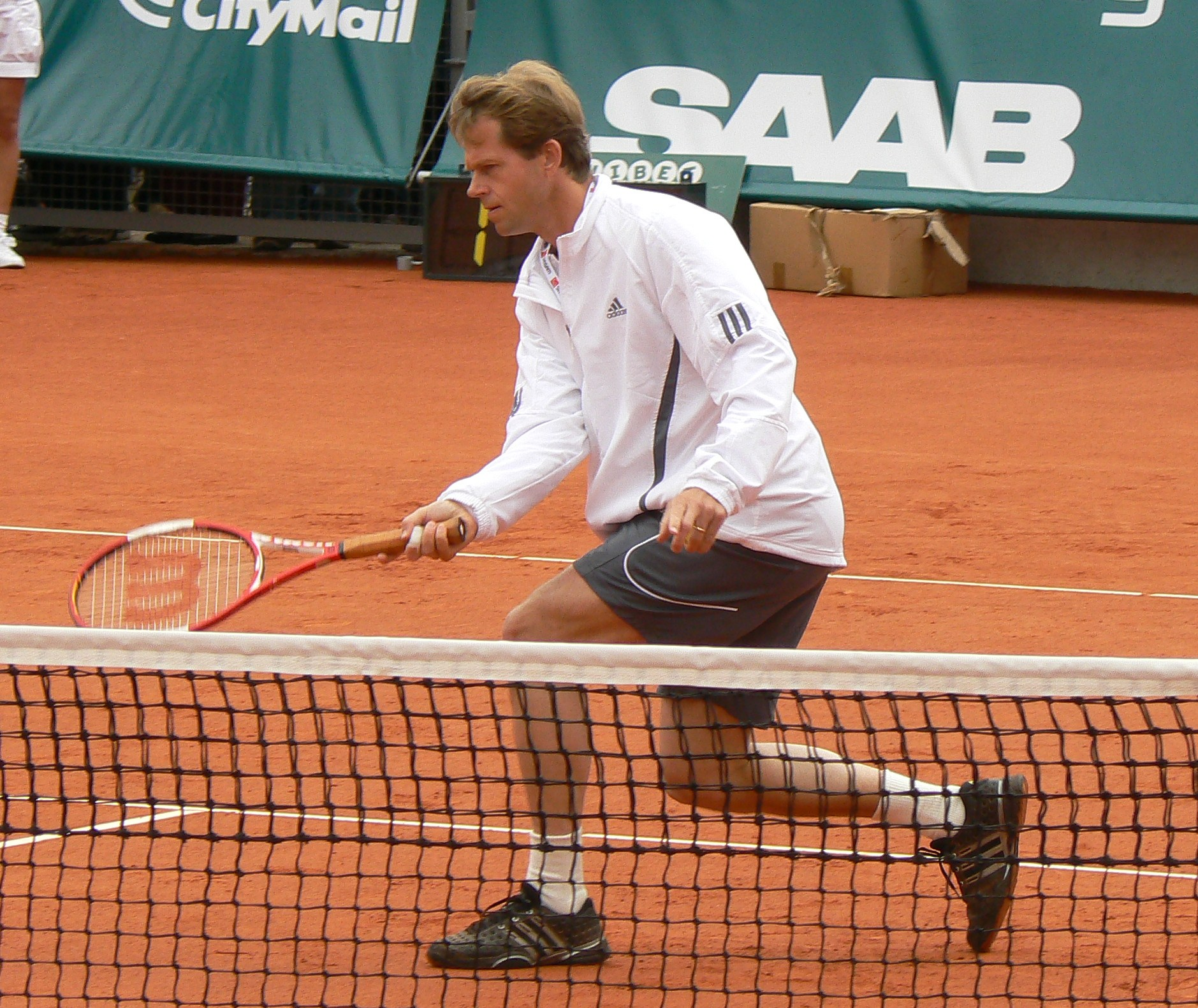 Stefan Edberg (taken by Michael Erhardsson, Sweden) playing in Båstad, Sweden (July, 2007)